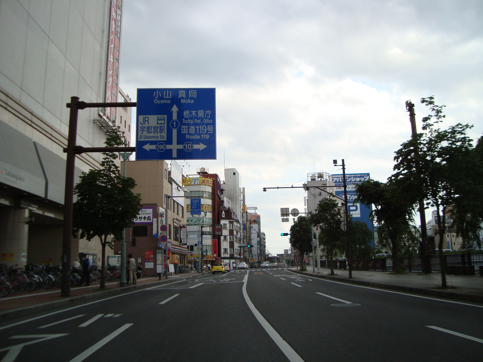 The Tochigi Prefectural Road Route 10 in Ekimaedori 1-chome, Utsunomiya City